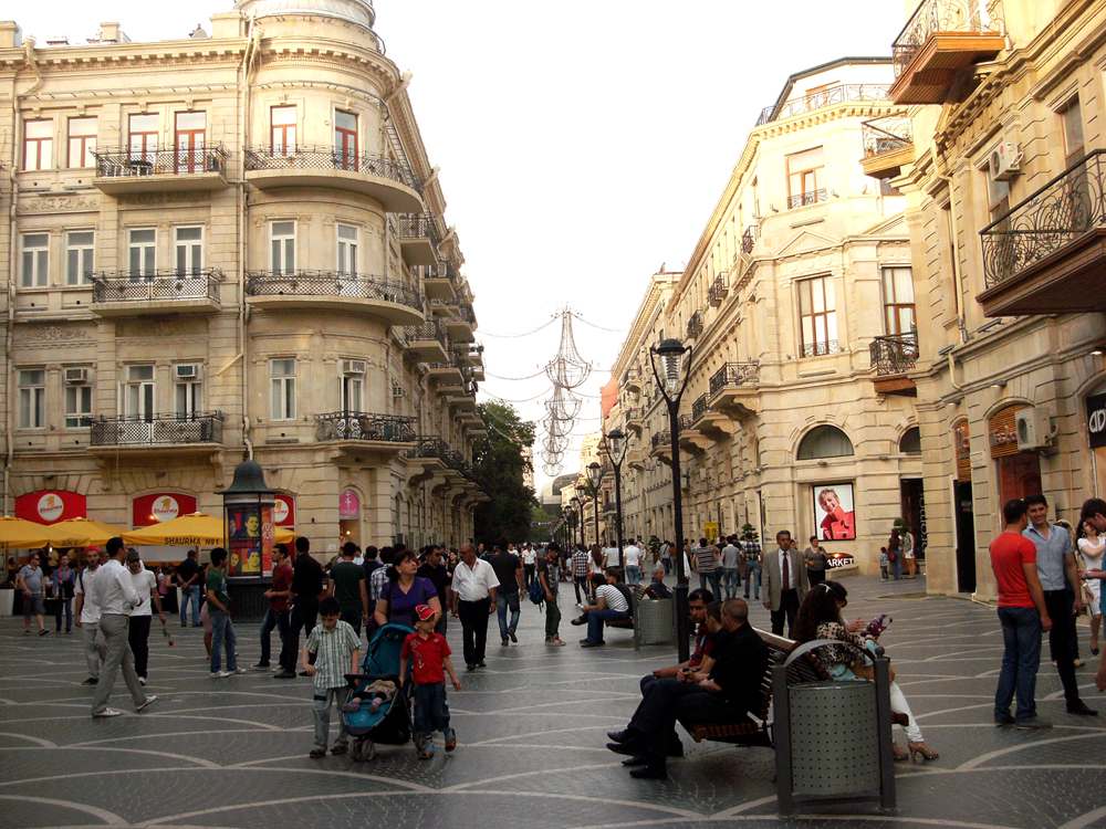 Nizami street baku